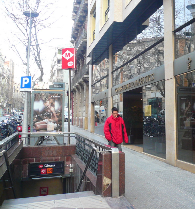 Girona station, Barcelona Metro.